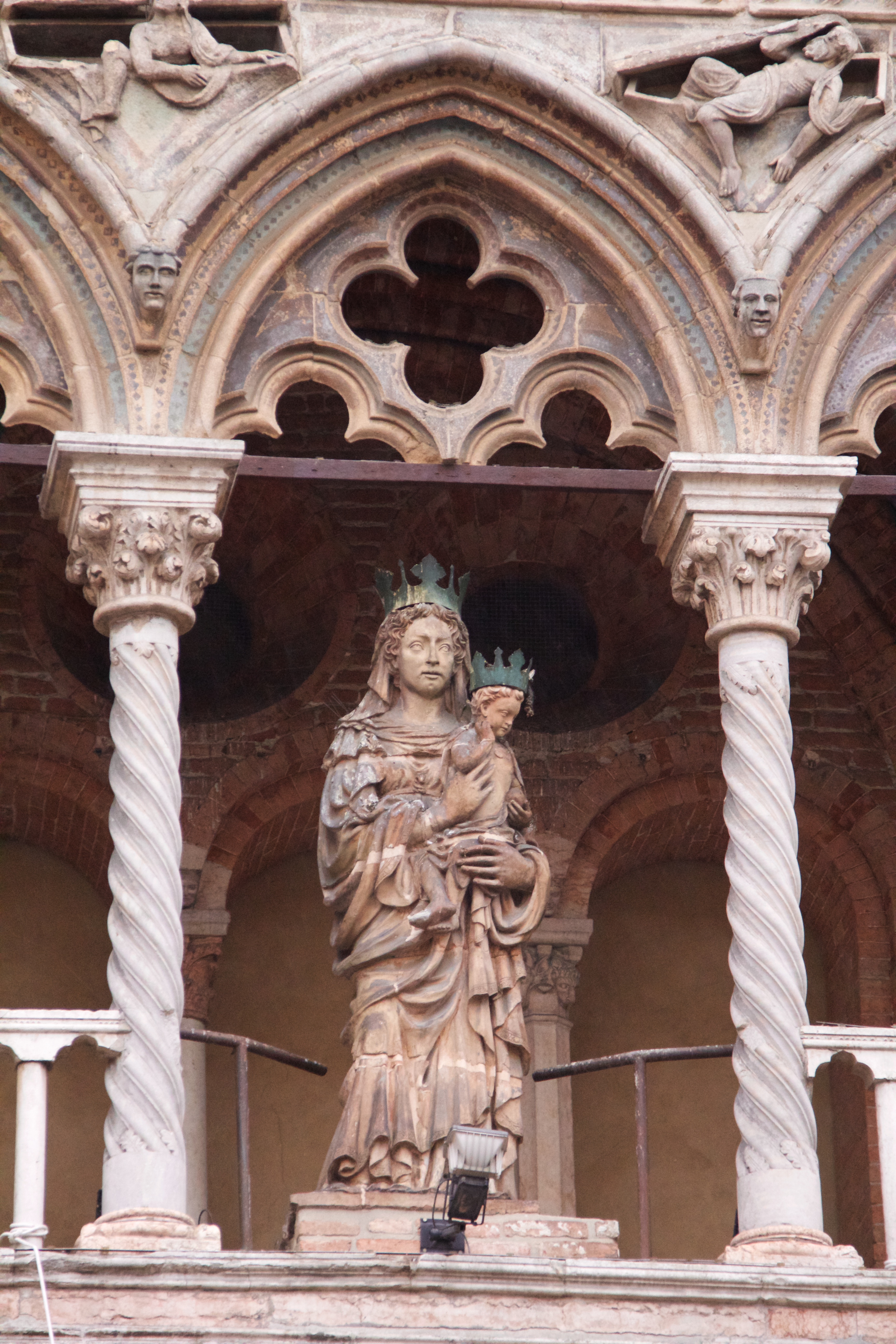 Ferrara Cathedral, Ferrara, Italy.